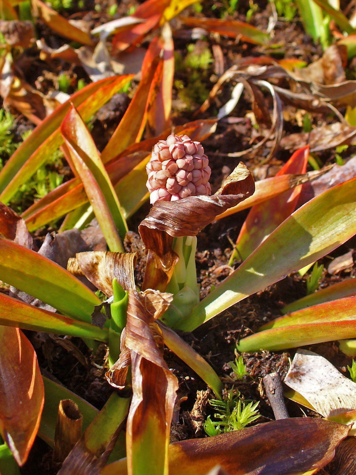 Helonias bullata, Melanthiaceae, Swamp Pink, developing inflorescence; Botanical Garden KIT, Karlsruhe, Germany.